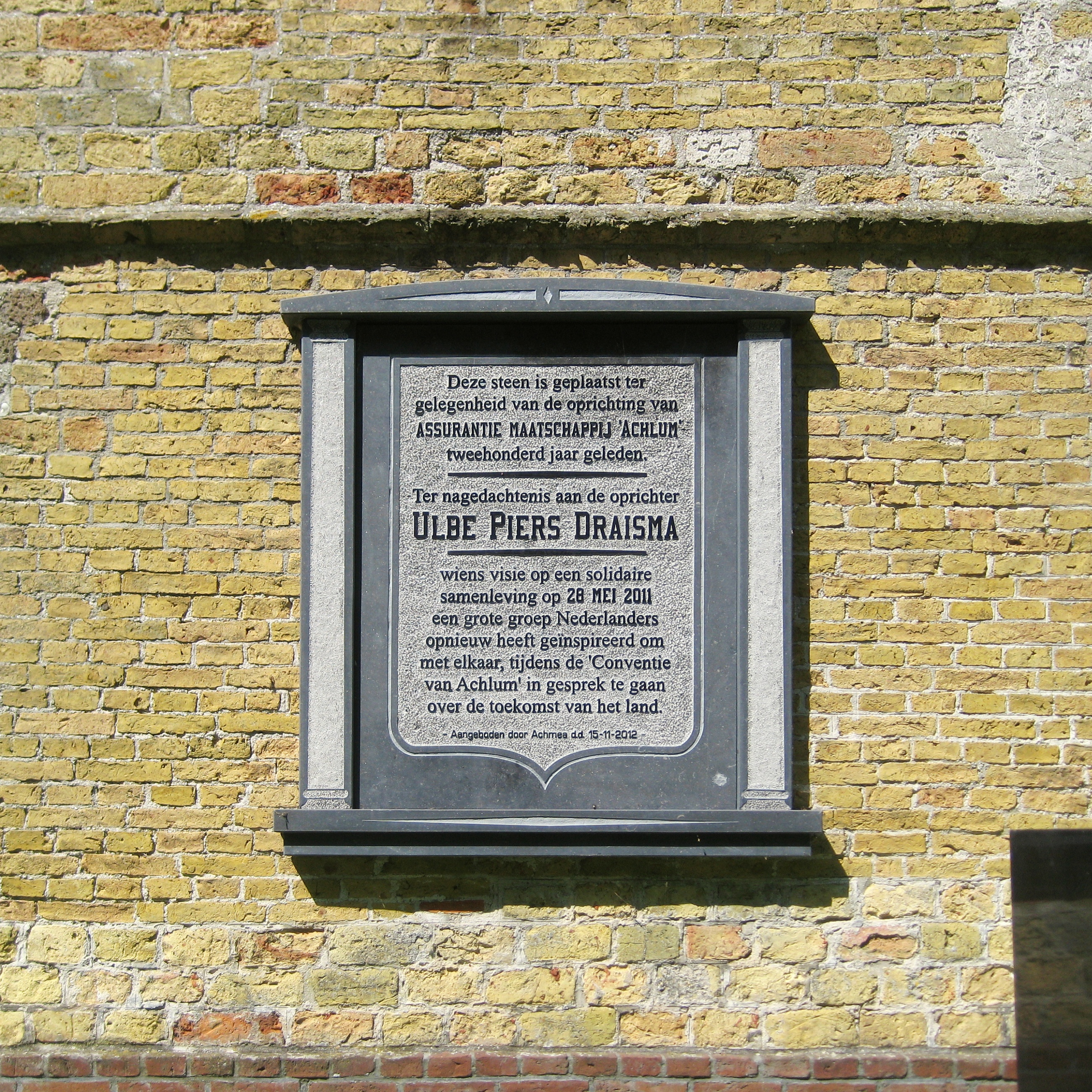 Commemorative plaque for Ulbe Piers Draisma (1785-1830) on the southern exterior wall of the church of Achlum, a village in the Dutch province of Fryslân. In 1811 Draisma founded the Onderlinge Waarborgmaatschappij Achlum, a predecessor of the Dutch insurance company Achmea.